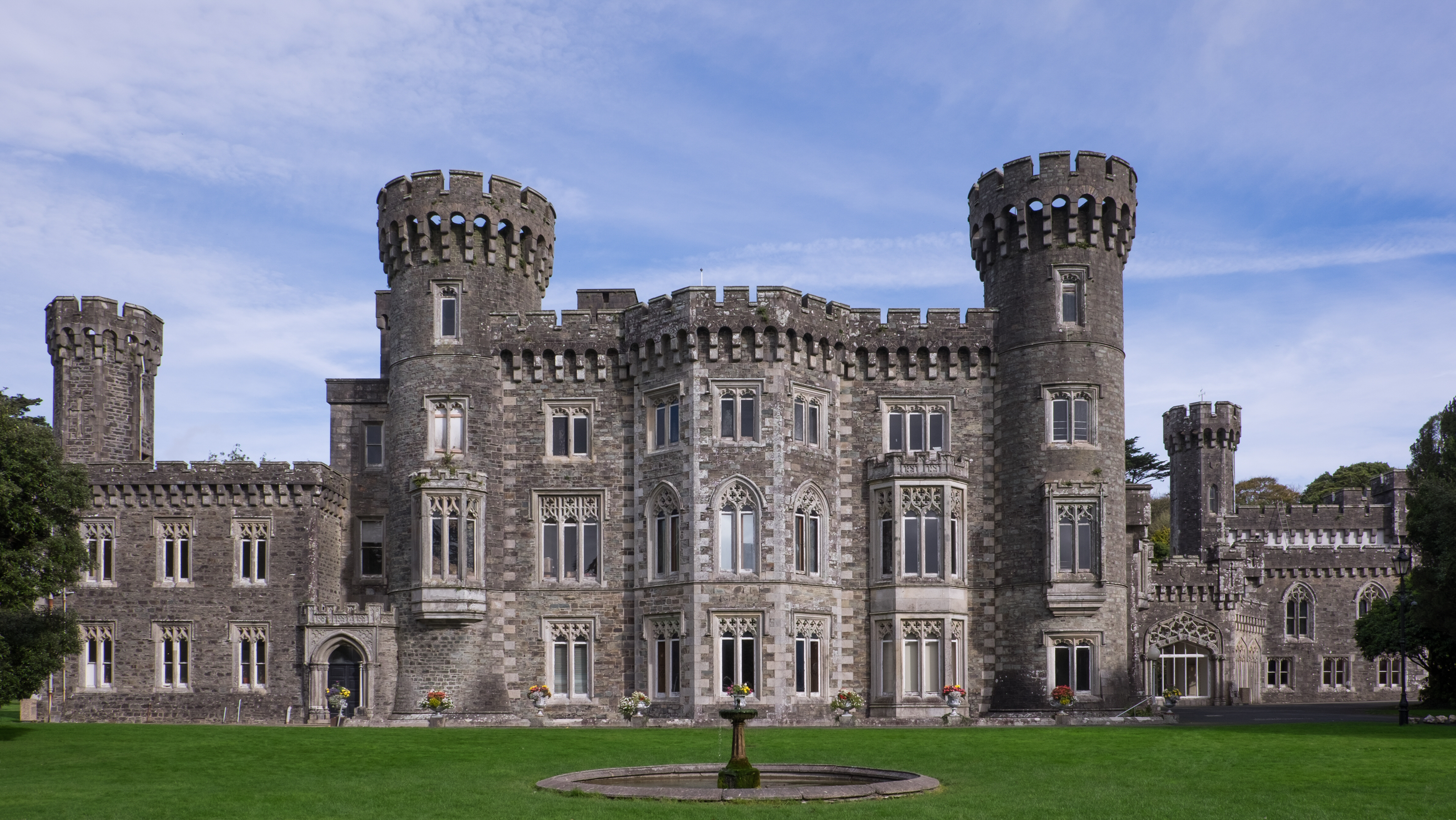 Johnstown Castle near Wexford, Ireland.